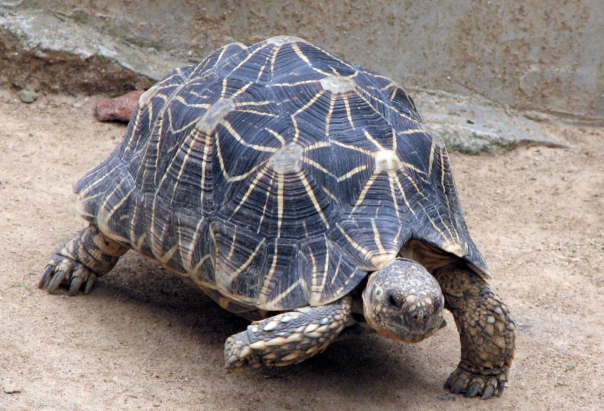 Indian Star Tortoise